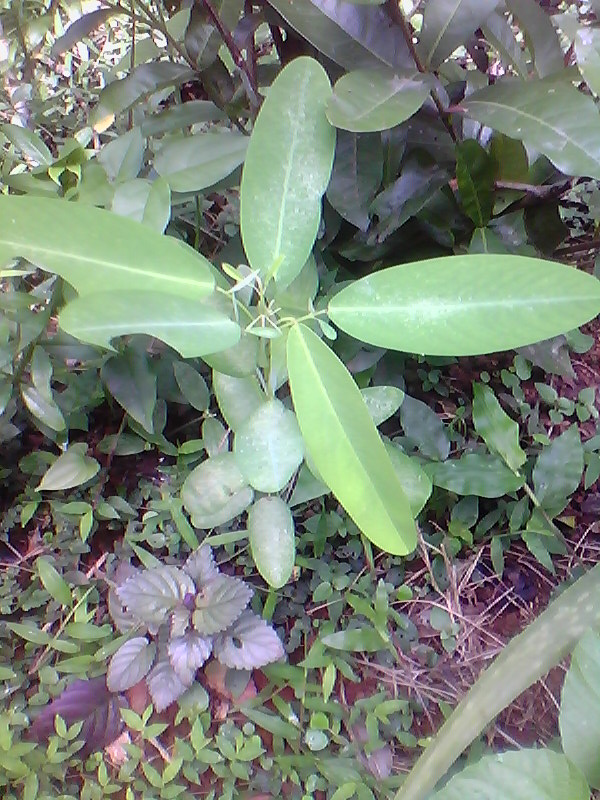 Thozhukanni